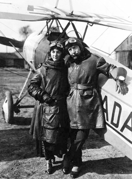 French aviator Charles Nungesser and his fiancée standing beside a Morane-Saulnier aircraft at Orly Airport in 1923.